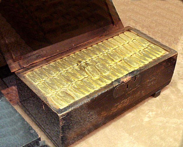 Japanese Senryobako